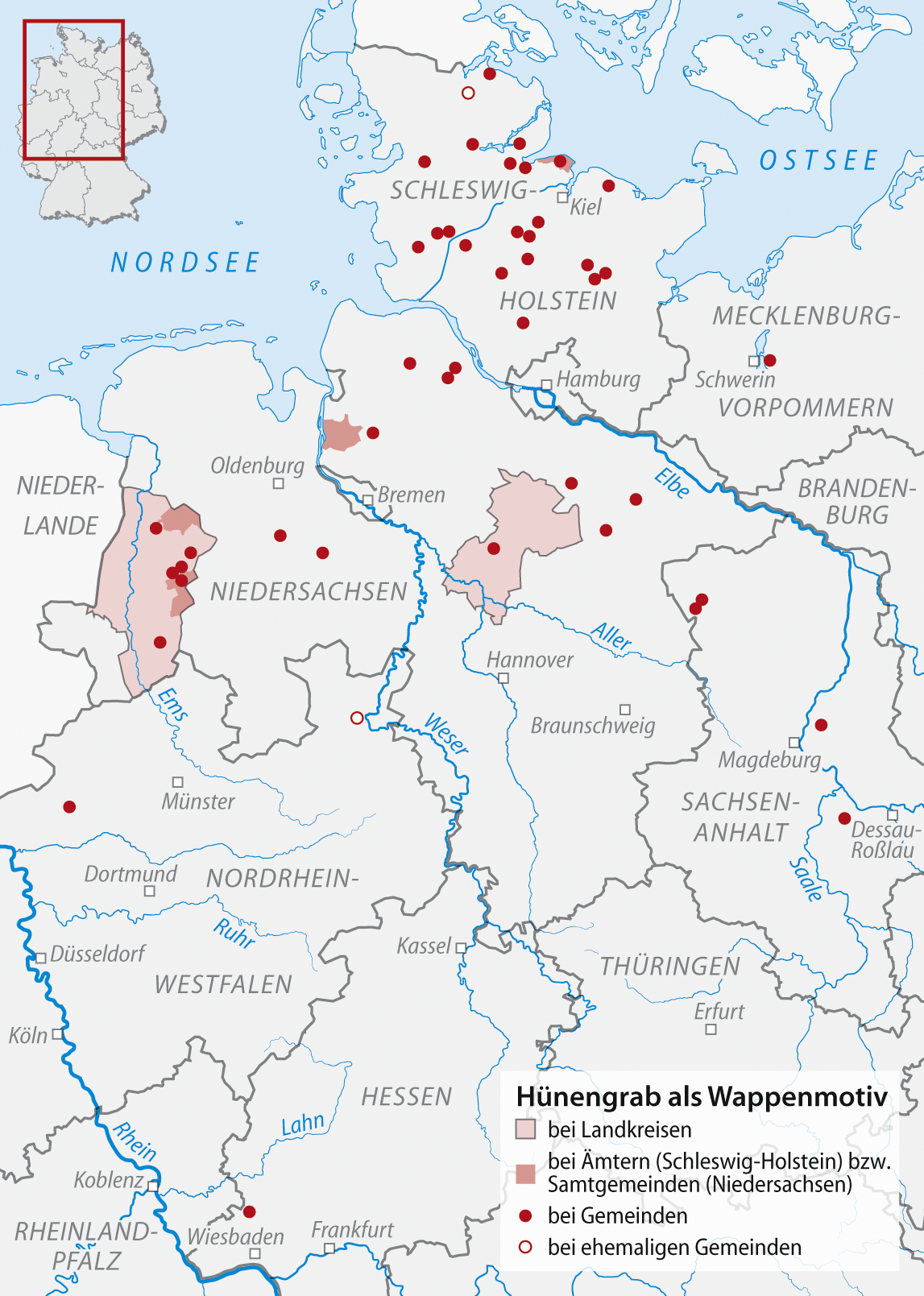 Dolmens in heraldry in Germany